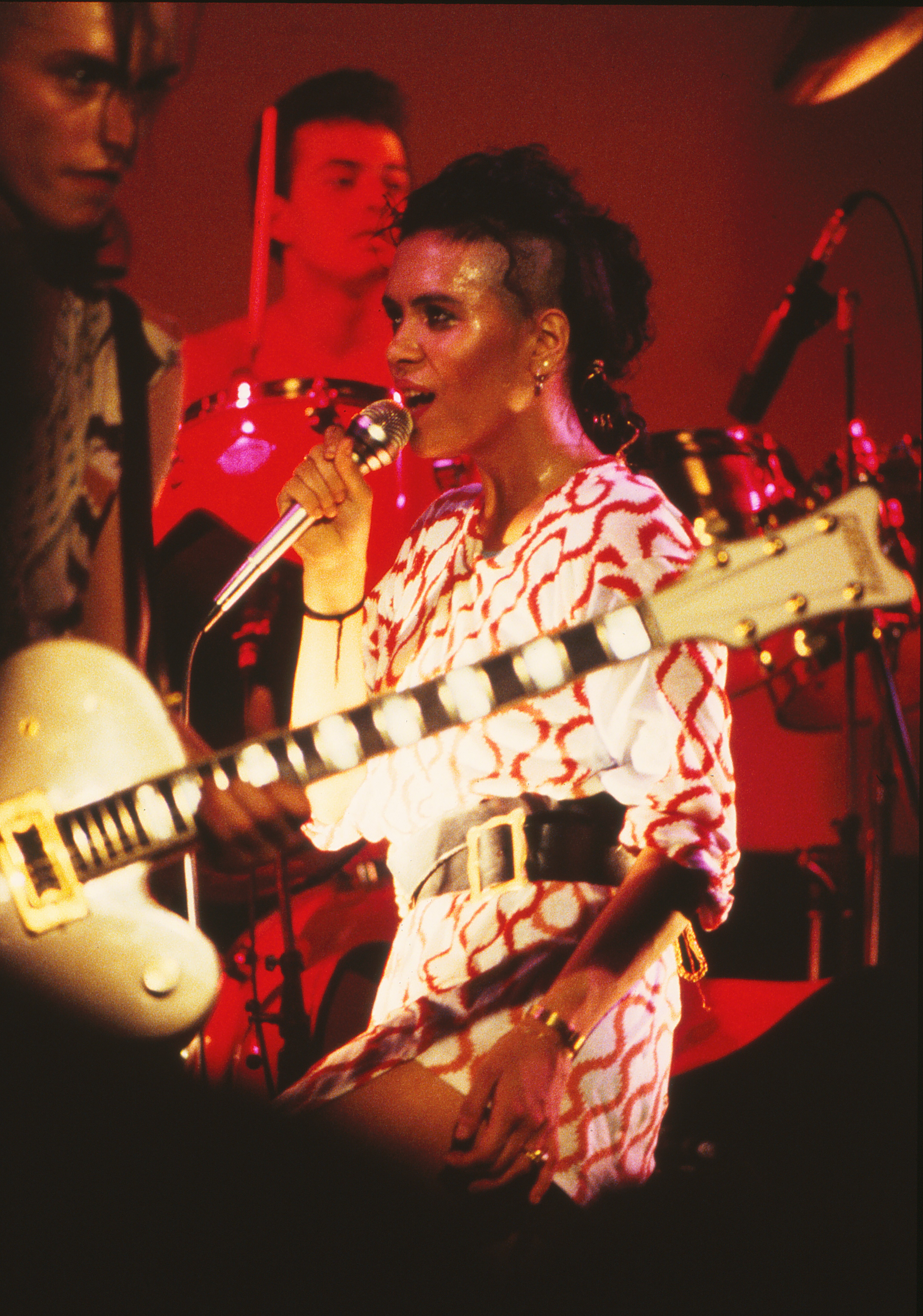 Anna bella Lwin & Bow Wow Wow at Kant-Kino, Berlin, 1982